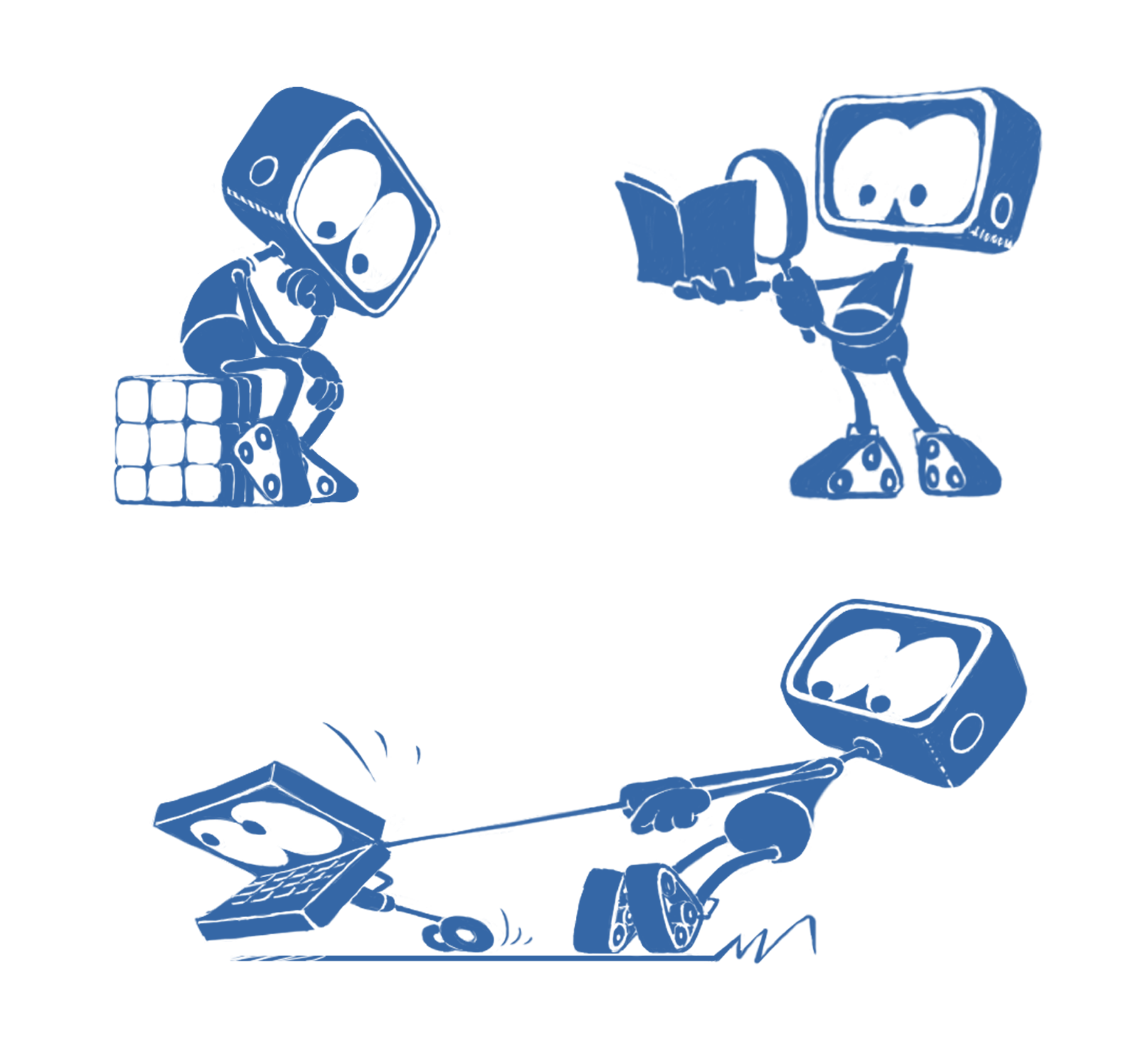 Miniatures with Kvantik. Artist page